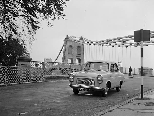 Teitl Cymraeg/Welsh title: Profi'r Ford Prefect. Ffotograffydd/Photographer: Geoff Charles (1909-2002) Dyddiad/Date: 29/10/1954 Cyfrwng/Medium: Negydd ffilm / Film negative Cyfeiriad/Reference: (gch06973) Rhif cofnod / Record no.: 3368010 Rhagor o wybodaeth am gasgliad Geoff Charles yn Llyfrgell Genedlaethol Cymru More information about the Geoff Charles Collection at the National Library of Wales Mae ffotograffau Geoff Charles hefyd yn rhan o Broject Europeana Libraries Geoff Charles' photographs also form part of the Europeana Libraries Project